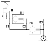 Electric motors